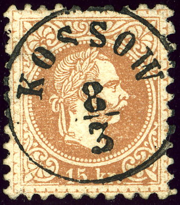 Austria KK 15 kr stamp issued in 1867, cancelled at KOSSOW (Galicia, Ukraine)